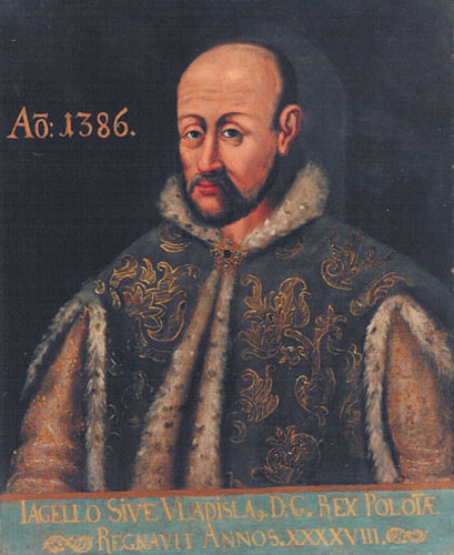 Painting of King Władysław II Jagiełło of Poland. The image was commissioned around 1645 by the City Council of Toruń—on the occasion of King Władysław IV Wasa's visit to the city—in order to honour him and his predecessors.